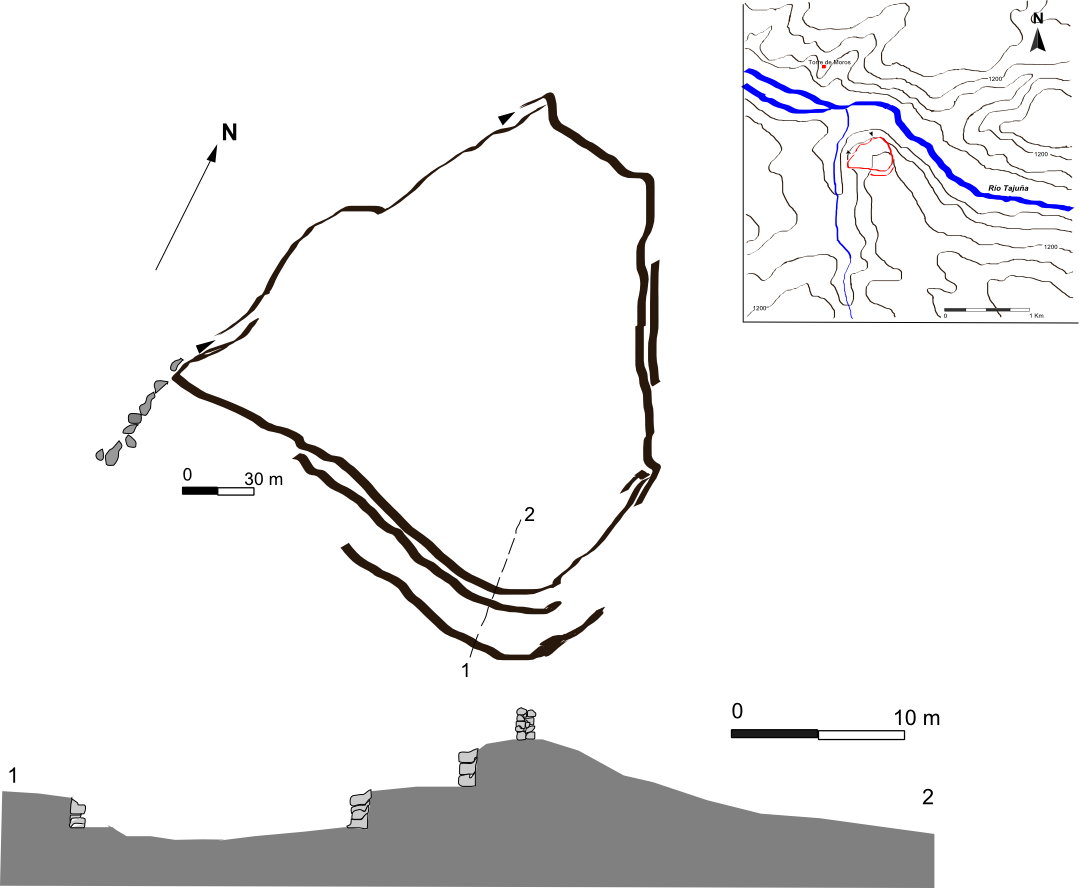 Topographic map and perimeter of the Celtiberian archaeological site of La Cava. Luzón, province of Guadalajara, Spain.